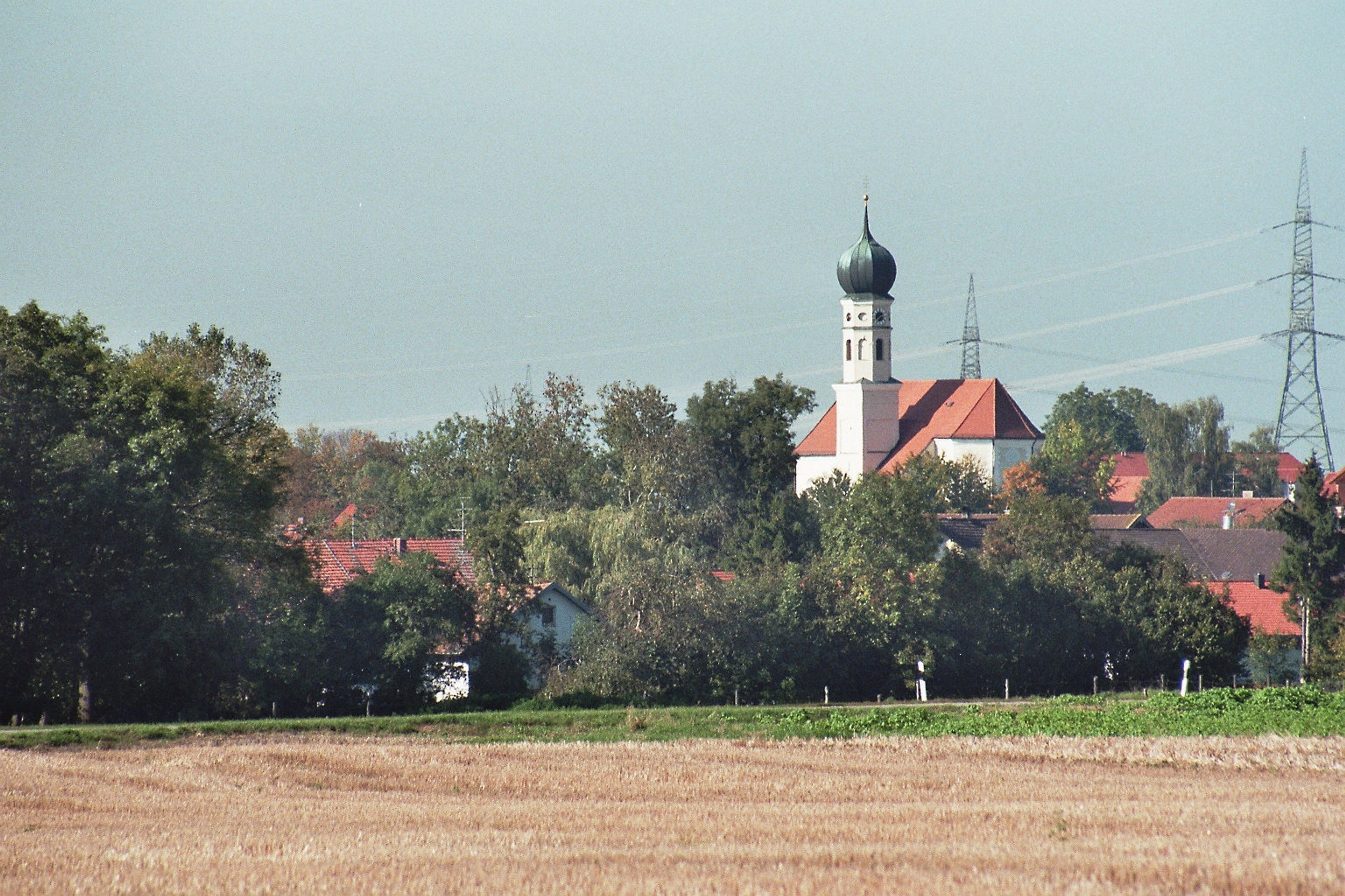 Finsing, village with church St. George